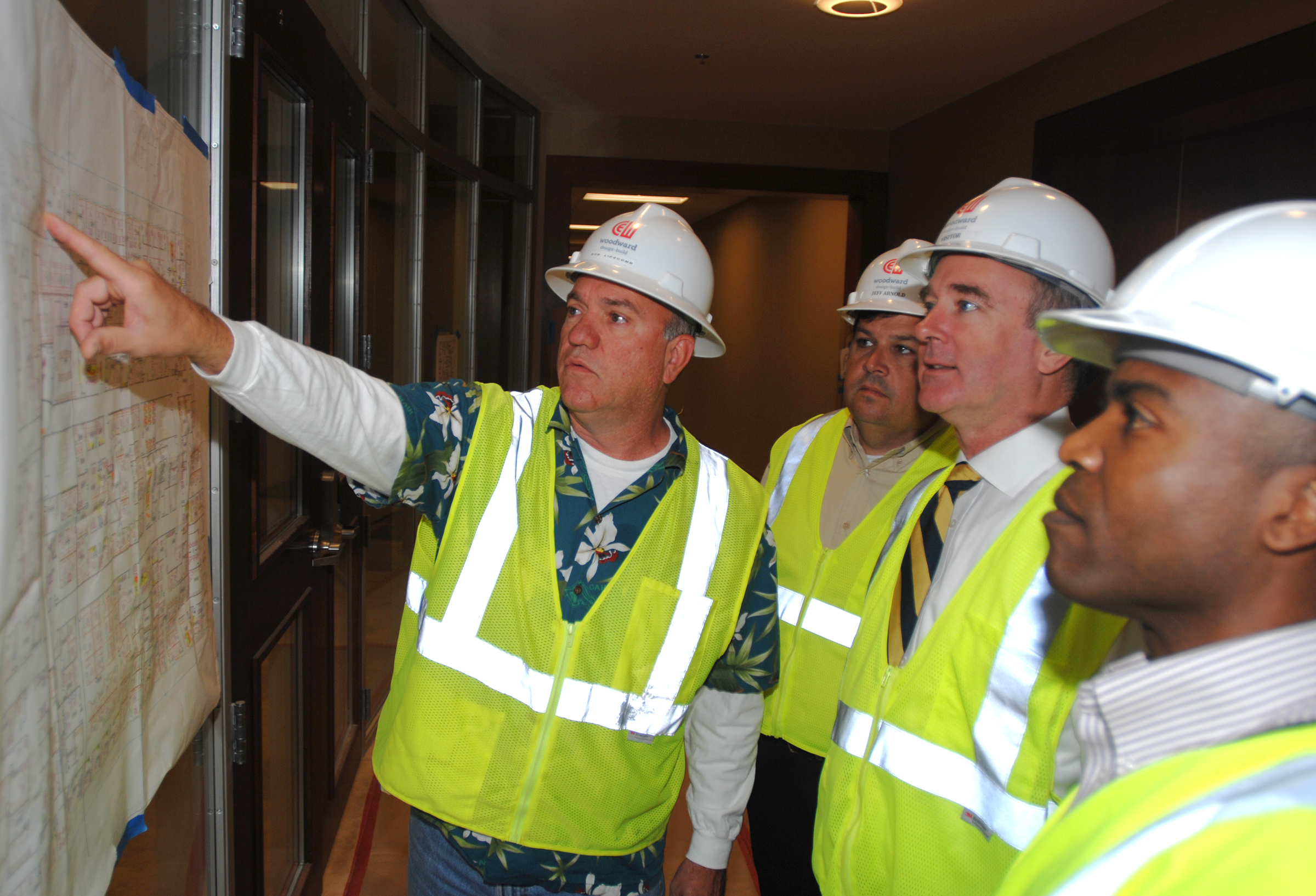 NEW ORLEANS (May 6, 2011) Bob Lipscomb, left, of WoodWard Design and Build, project manager for the Marine Force Reserve Headquarters project, identifies locations on a building plan to state Rep. Jeff Arnold, Mark Gorenflo, principal deputy for the Deputy Under Secretary of the Navy for Plans, Policy, Oversight and Integration, and Howard Myrick, a Marine Force Reserve support staff member. The state funded building will be home to more than 1900 active duty, reserve component and full-time support staff. The project has been awarded a Leadership in Energy and Environmental Design (LEED) certification from the U.S. Green Building Council. Gorenflo is touring the facility as part of New Orleans Navy Week, one of 21 Navy Weeks planned across America in 2011. Navy Weeks are designed to show Americans the investment they have made in their Navy and increase awareness in cities that do not have a significant Navy presence. (U.S. Navy photo by Mass Communication Specialist 1st Class Mark O'Donald/Released)